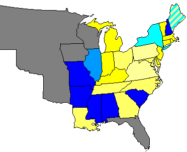 Summary of party control of U.S. house seats in the 27th United States Congress following election. Stripes indicate a tie between two or more parties. Legend: 80.1-100% Democratic seat majority 60.1-80% Democratic seat majority 60% or less Democratic seat plurality 60% or less Whig seat plurality 60.1-80% Whig seat majority 80.1-100% Whig seat majority